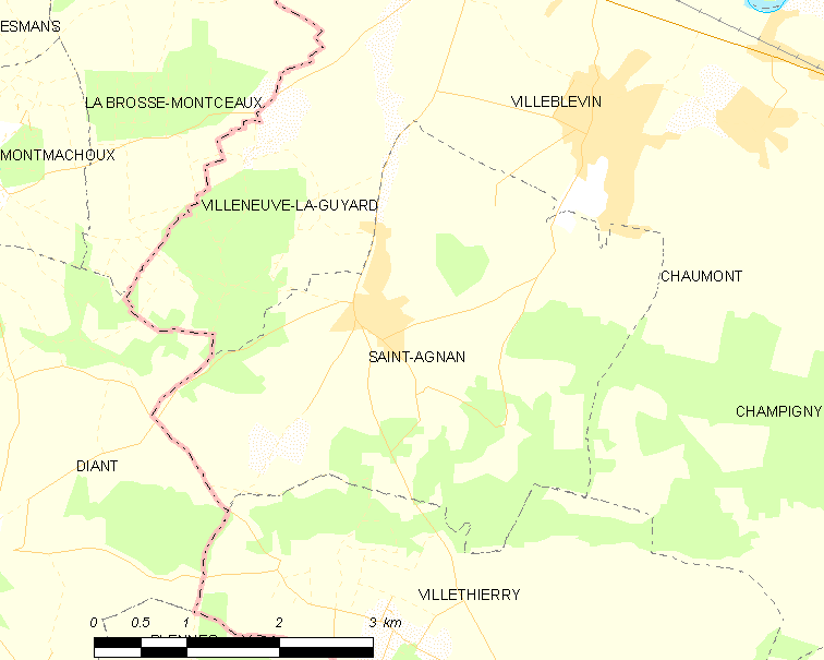 Map of French municipality Saint-Agnan